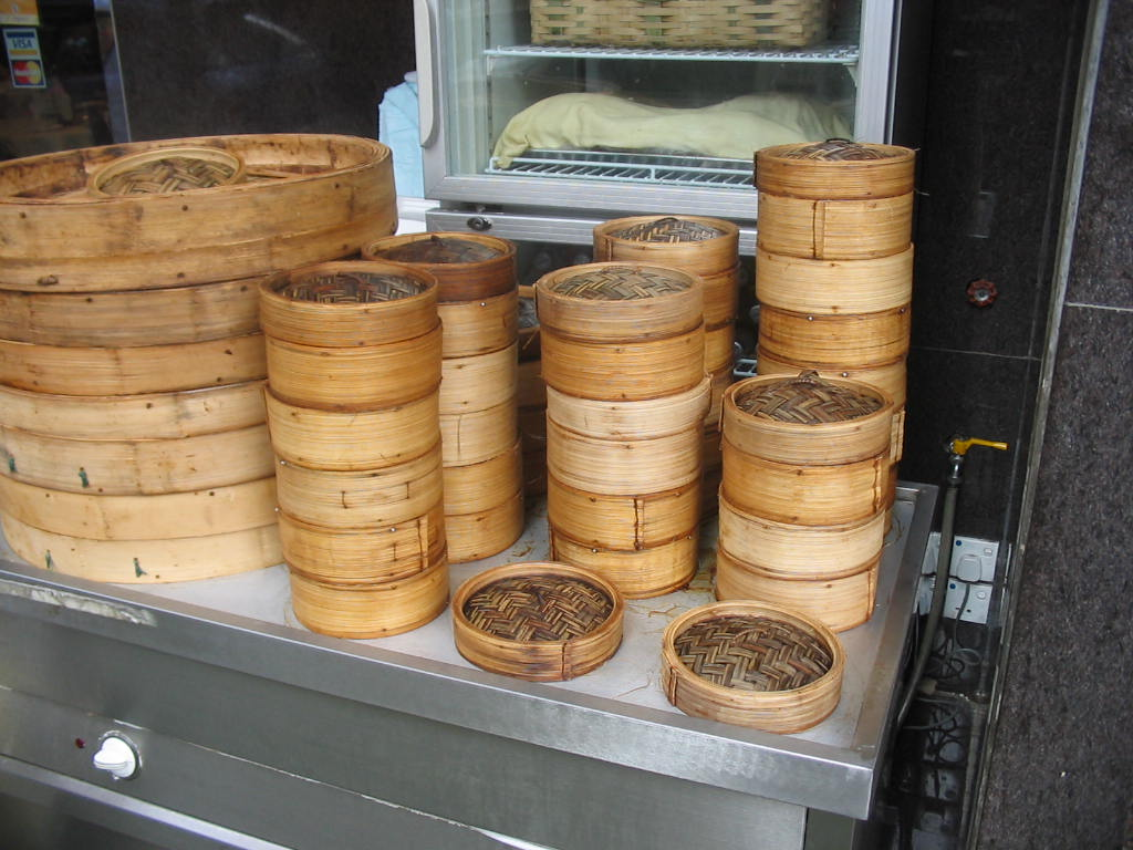 Dim sum treats on the street.Dim Sum Steam Baskets